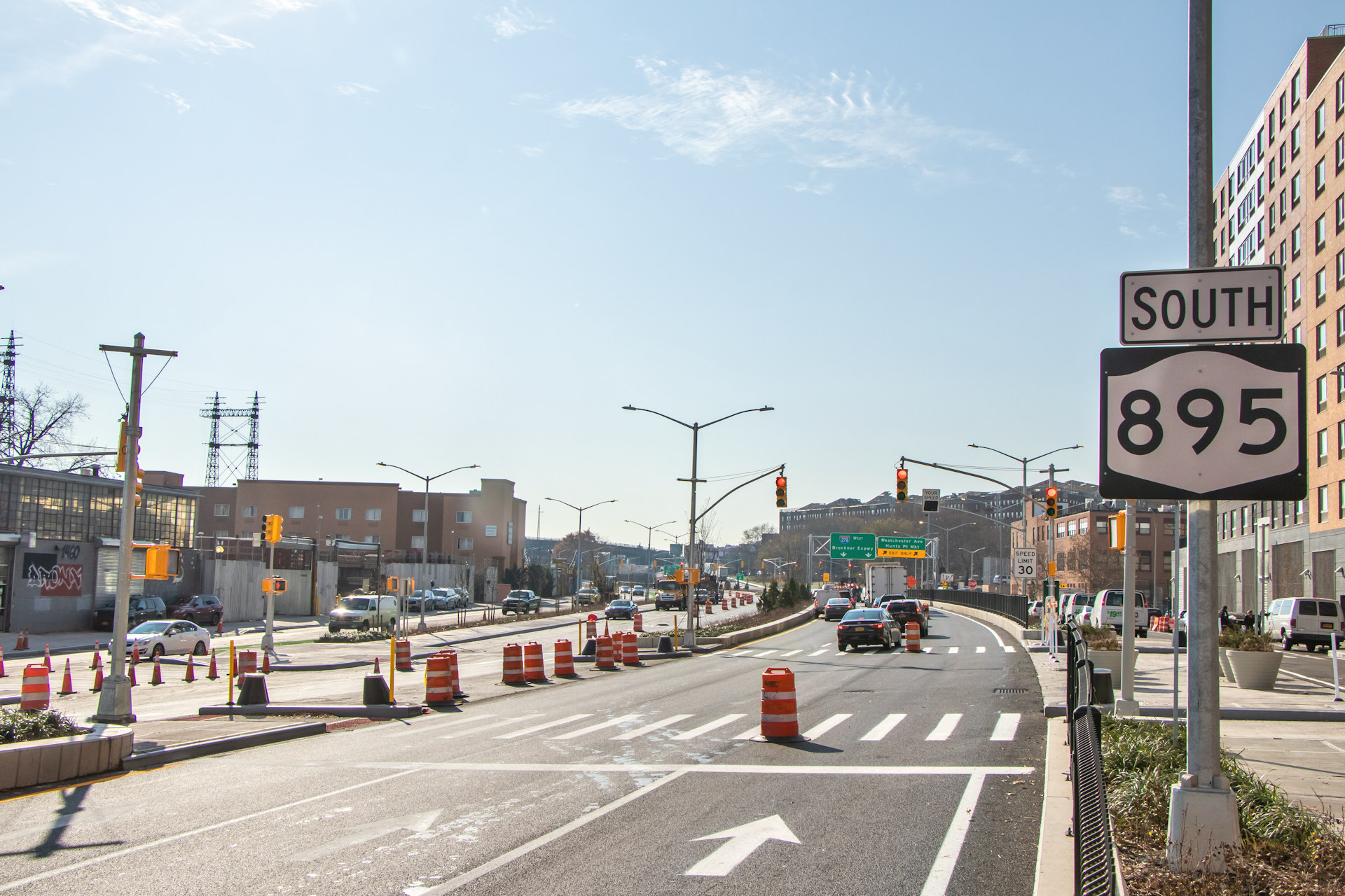 New York State Route 895 (Sheridan Blvd). Boulevard converted section as of November 2019.